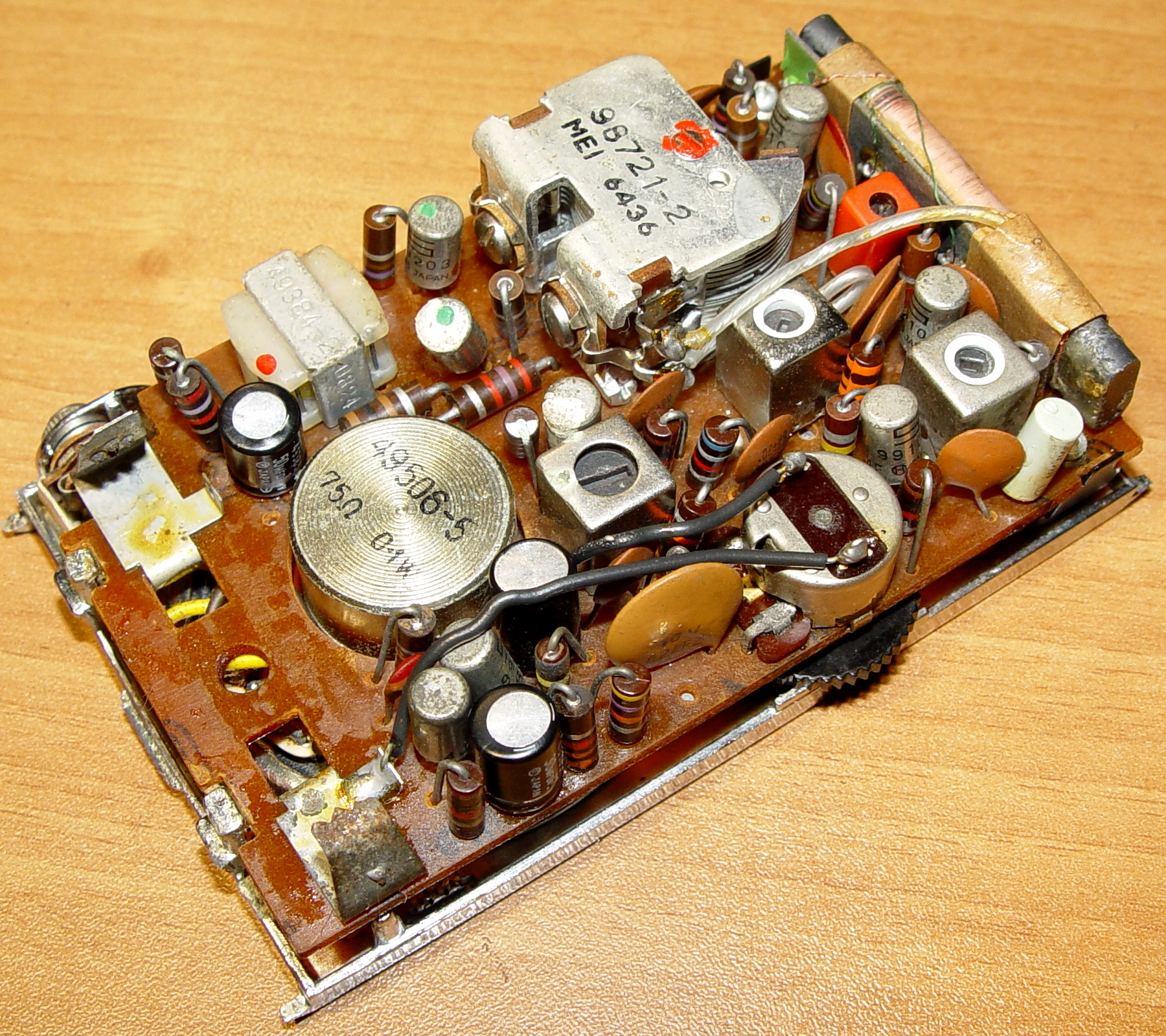 Arvin Eight Transistor 64R38 Radio Brand of Noblitt-Sparks Industries, USA Year: 1964 Broadcast only (MW) Dry Batteries / 9 Volt